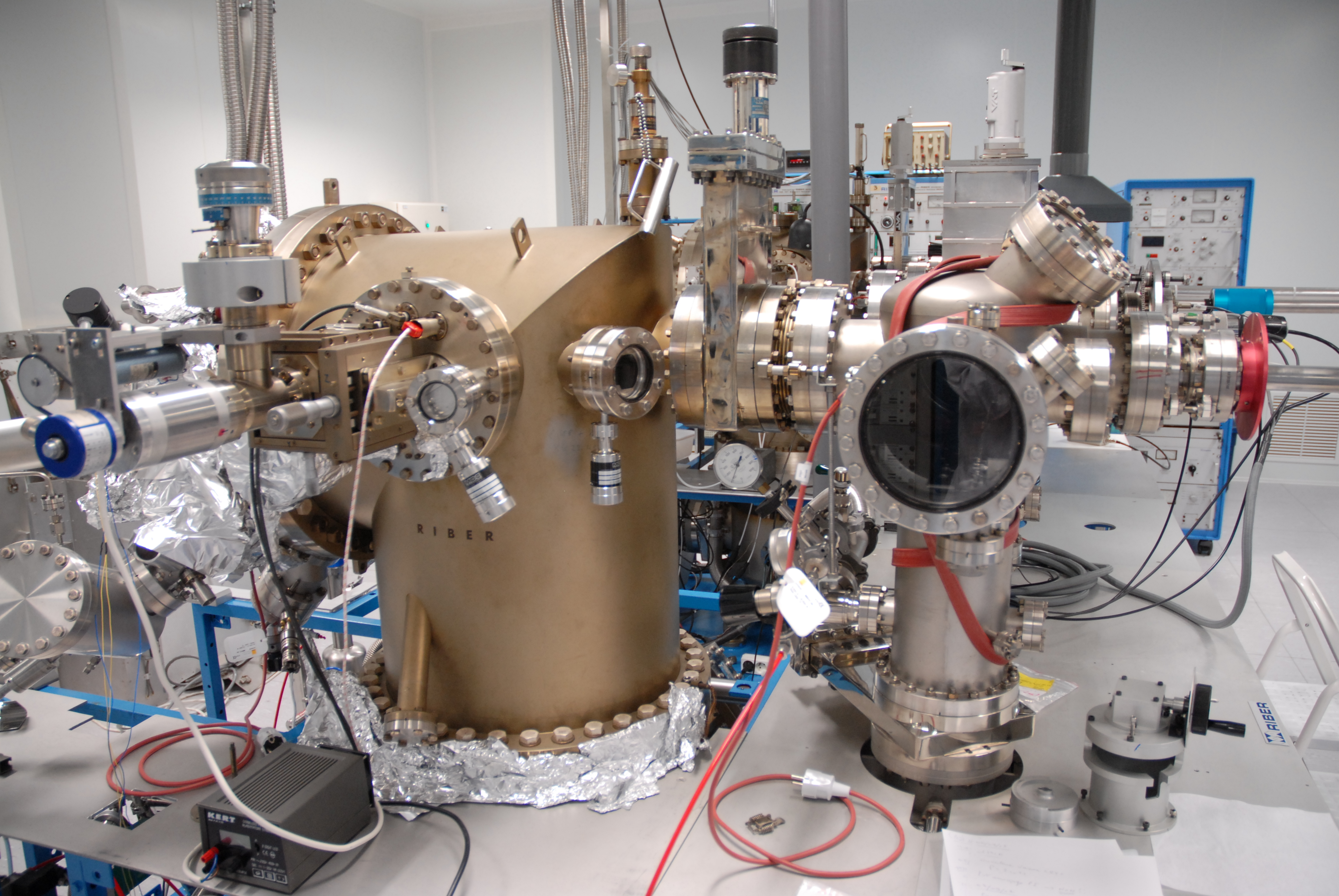 Molecular-beam epitaxy system at LAAS-CNRS technological facility in Toulouse, France.